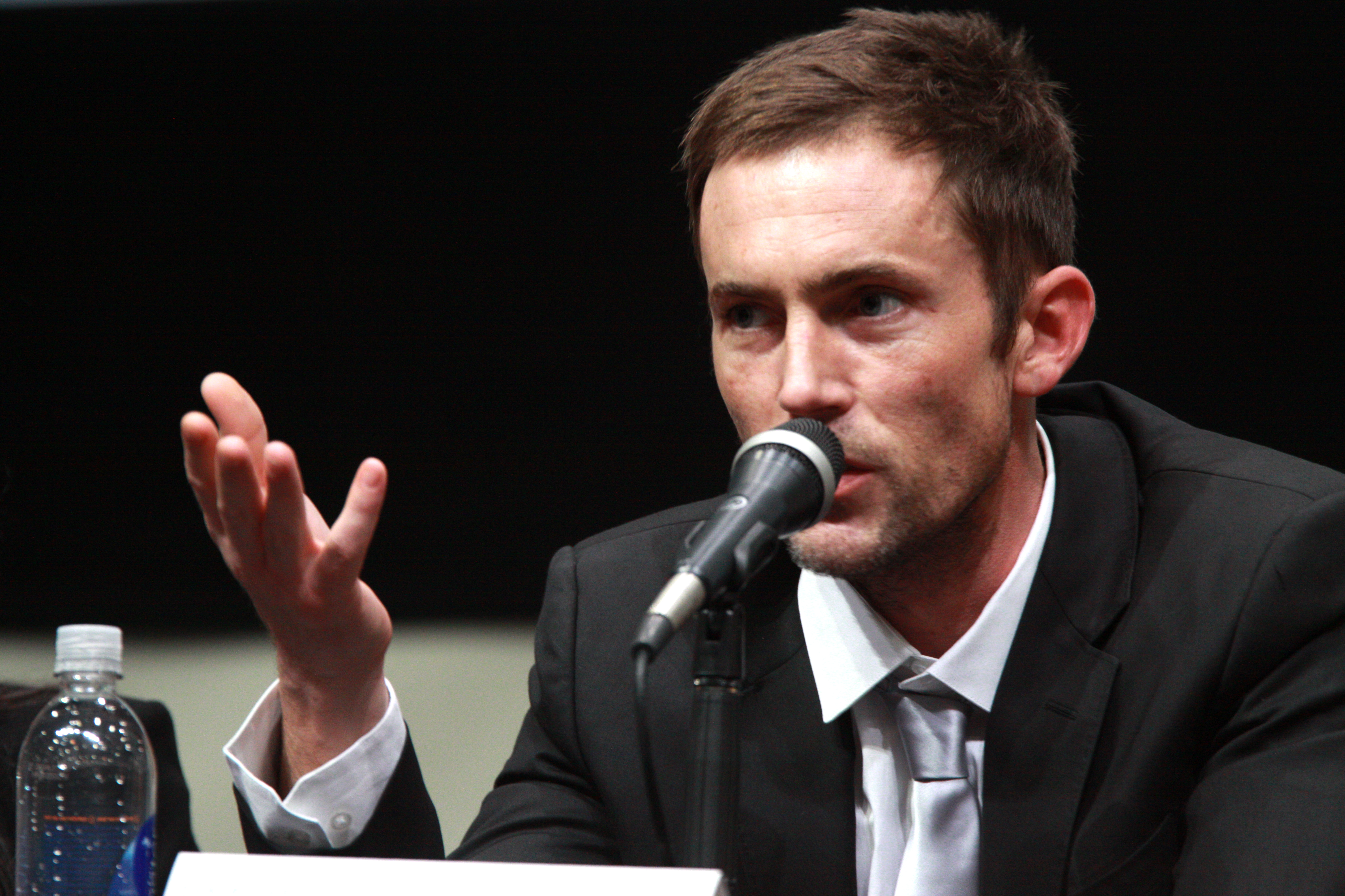 Desmond Harrington speaking at the 2013 San Diego Comic Con International, for "Dexter", at the San Diego Convention Center in San Diego, California.